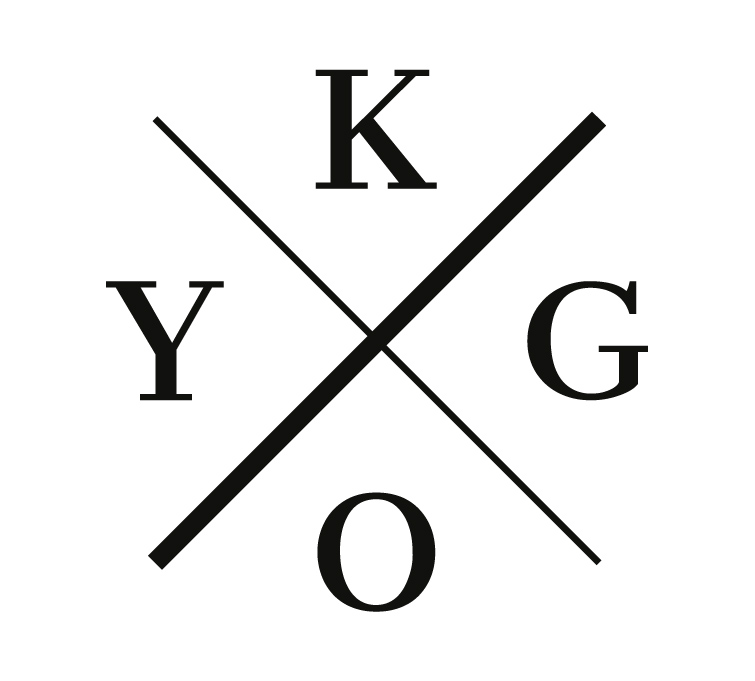 Kygo Life AS Logo